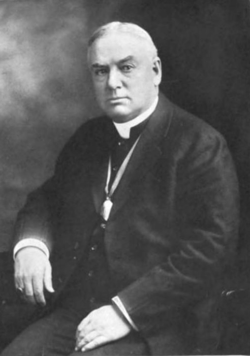 Arthur Llewllyn Williams, Bishop of the Diocese of Nebraska in The Episcopal Church